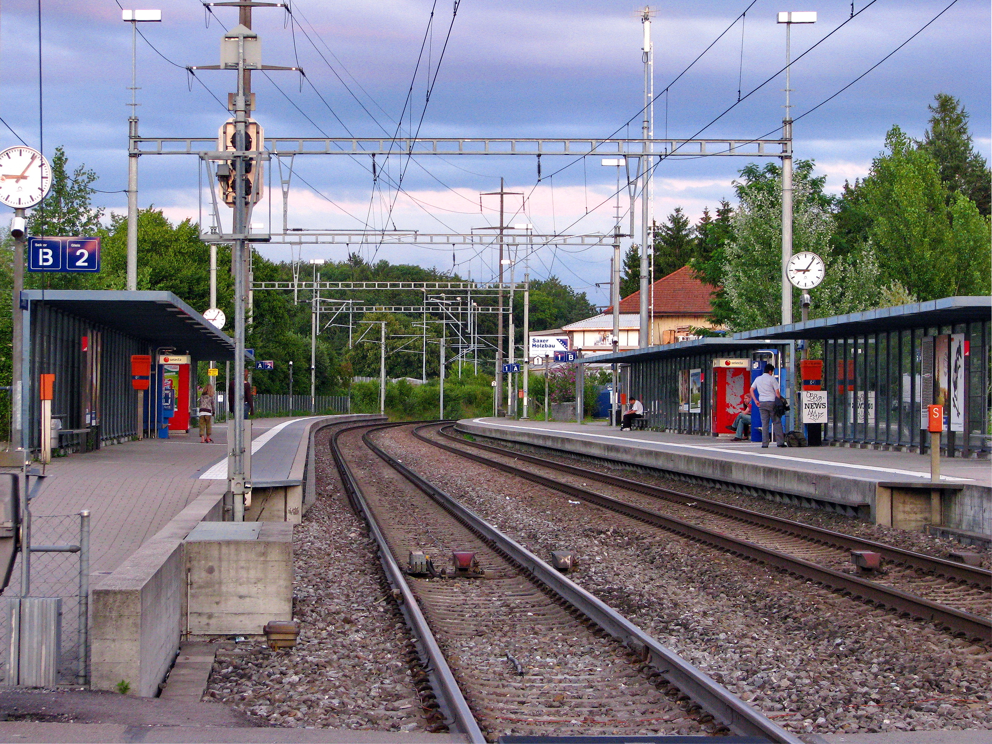 Zürich-Affoltern train station